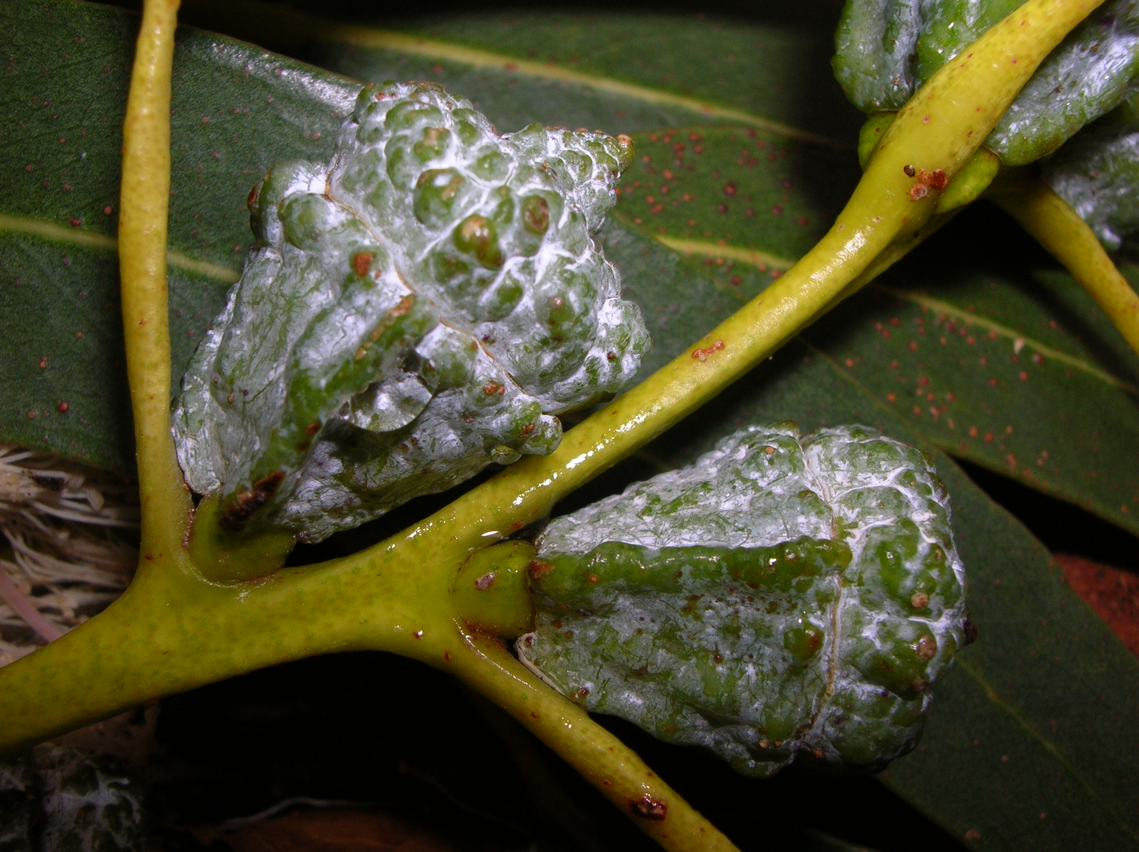 Eucalyptus globulus buds. Location: Maui, Makawao Forest Reserve